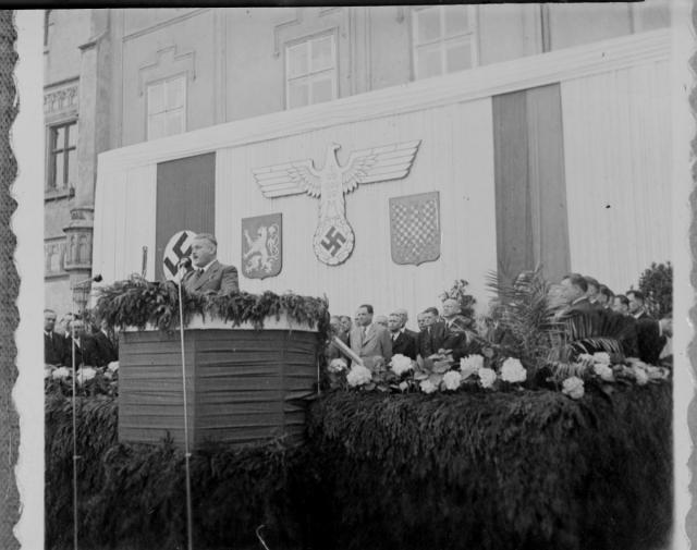 Jaroslav Krejčí giving a speech during the occupation of Czechoslovakia. (In the background: flags of Nazi Germany and the protectorate, coat of arms of Bohemia, Nazi Germany and Morava.)